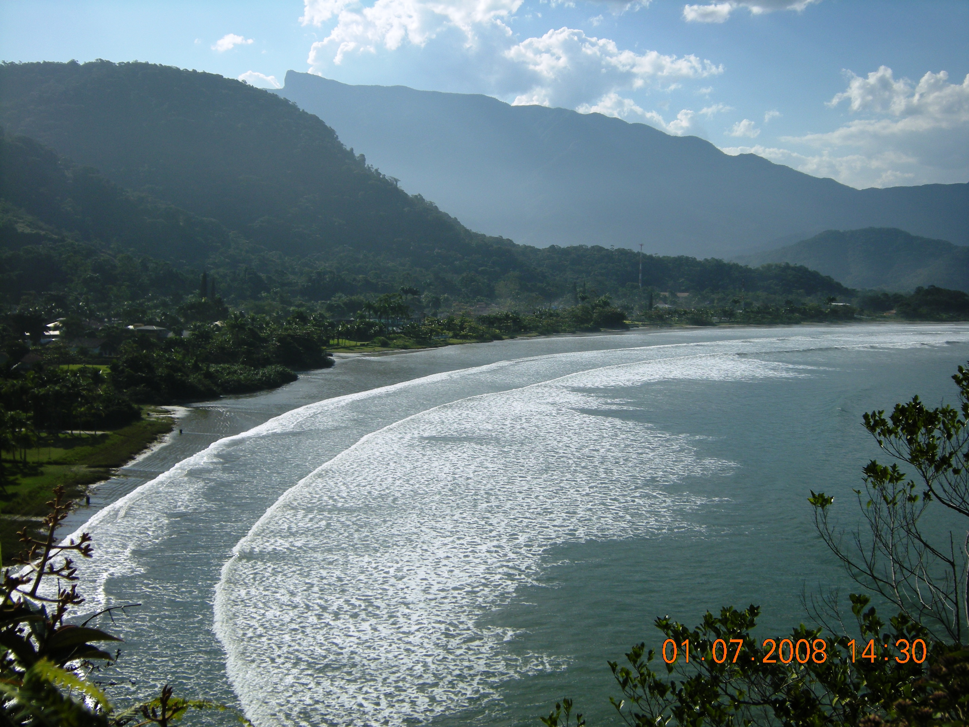 Almost deserted beach in Ubatuba/SP/Brasil. Not a sunny day, though. The place is called "Praia Dura".